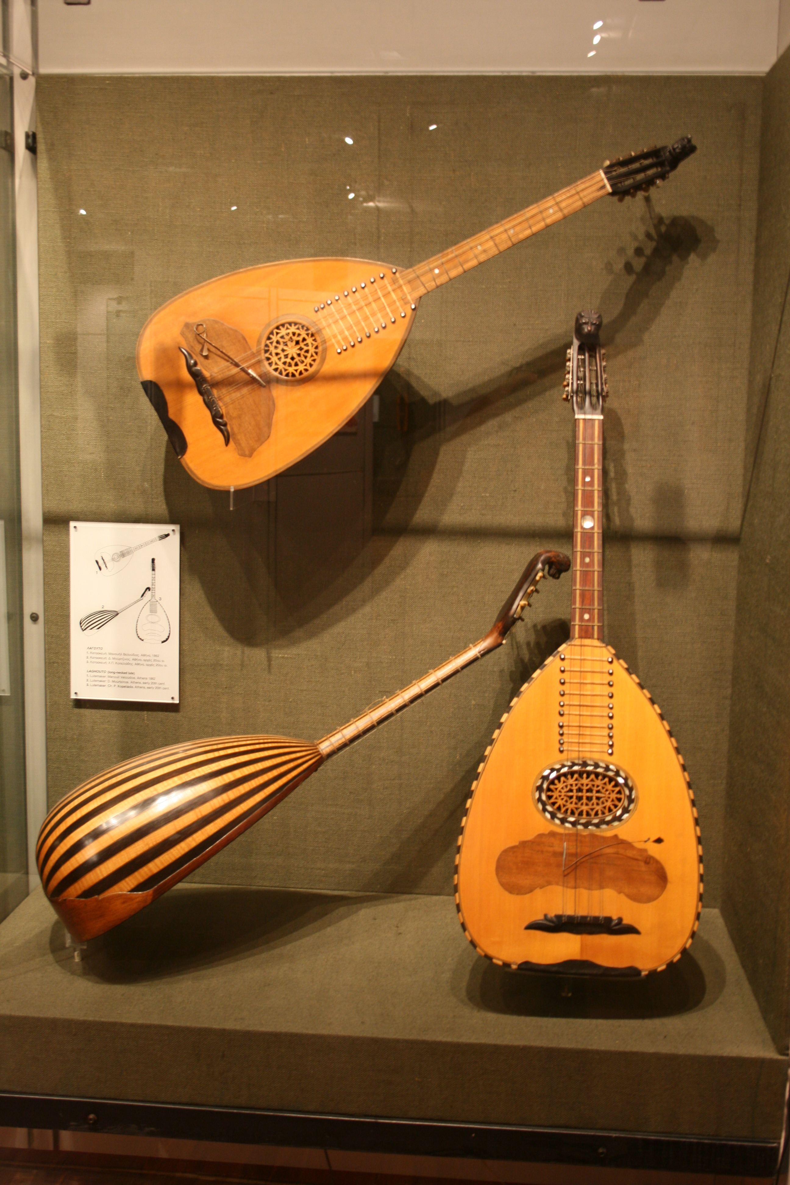 Different types of Laghoutos in the Museum of Greek Traditional Music Instruments in Athens. The first one built in 19th Century and the others during the 20th Century.